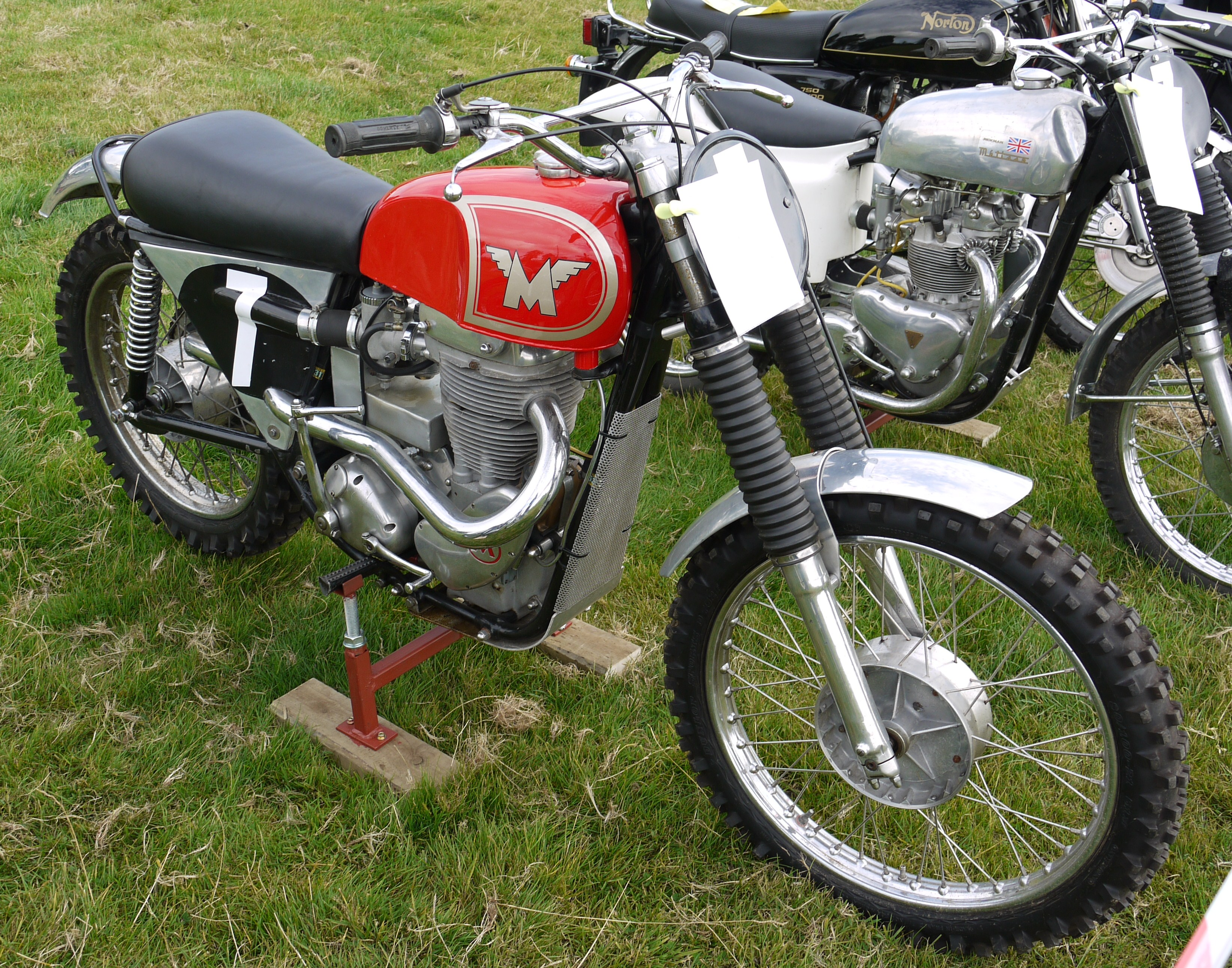 A Matchless motocross bike from the 60's beside a grey Rickman Métisse